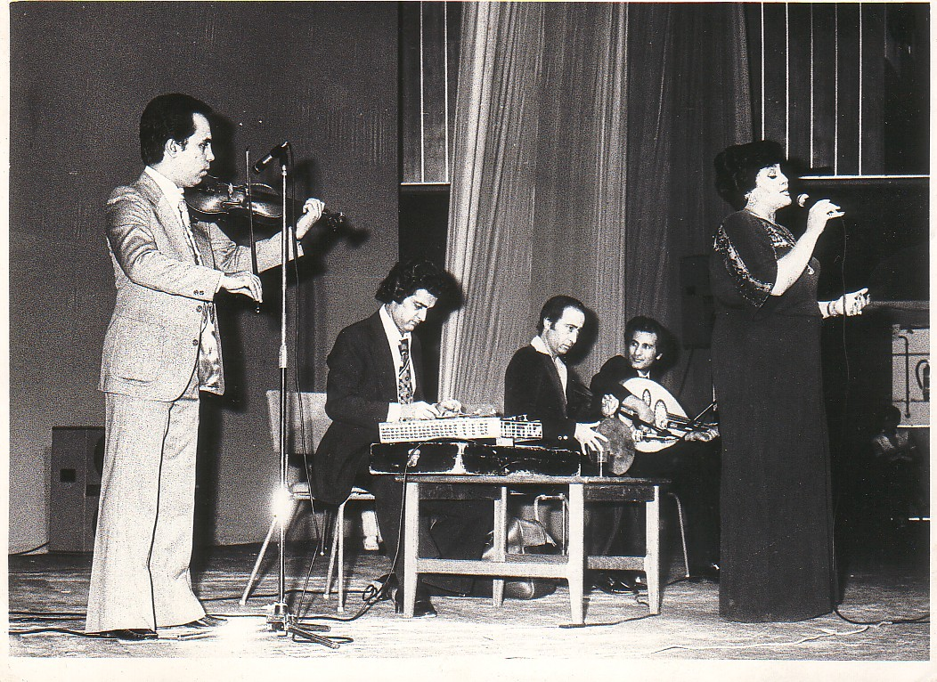 Photo of Loghman Adhami, M Amini, Naser Eftetah, Mahmoud Rahmanipour and Hayedeh